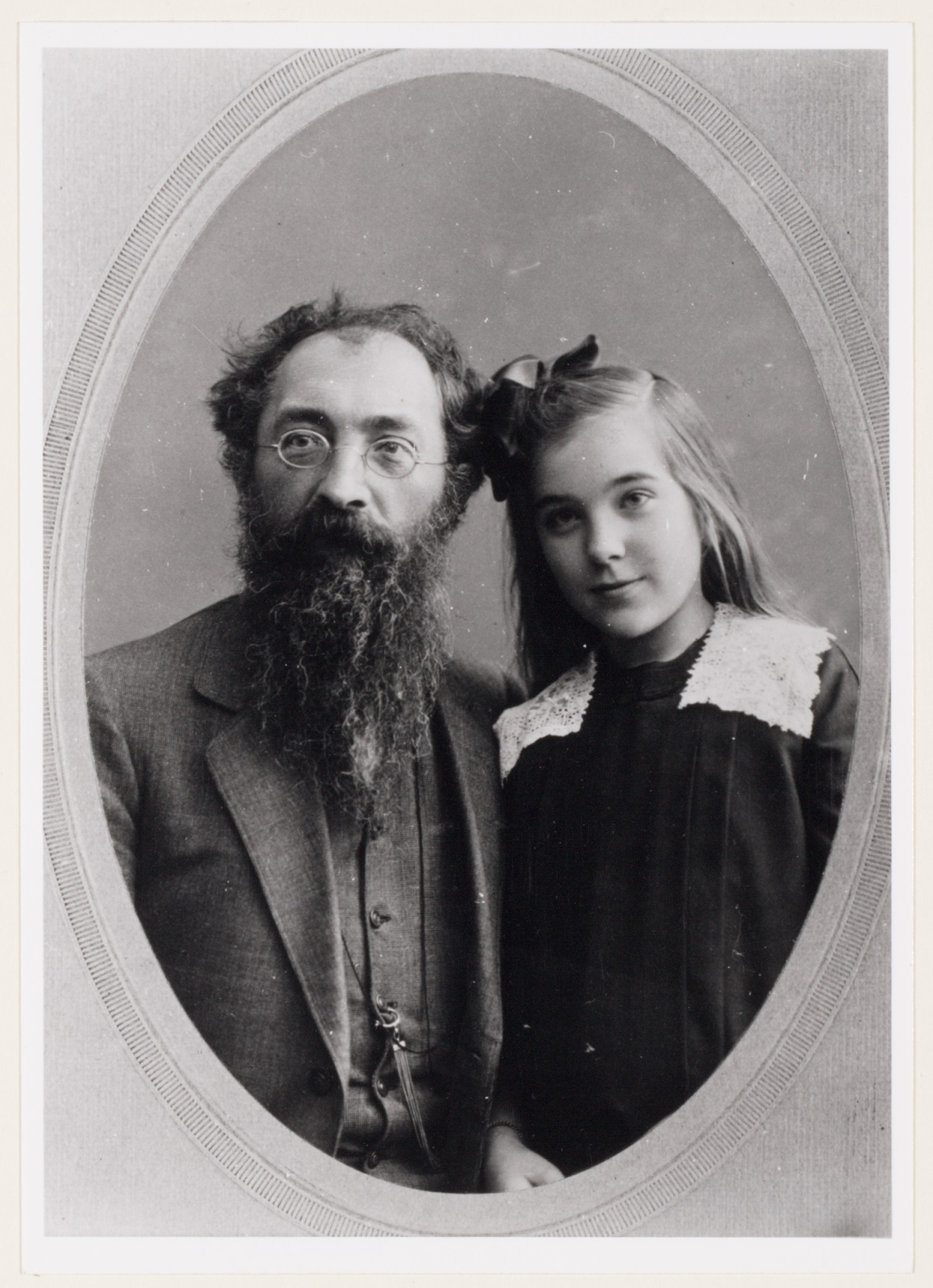 J.A. Dèr Mouw (1863-1919) and his adopted daughter Hetty (in 1904)